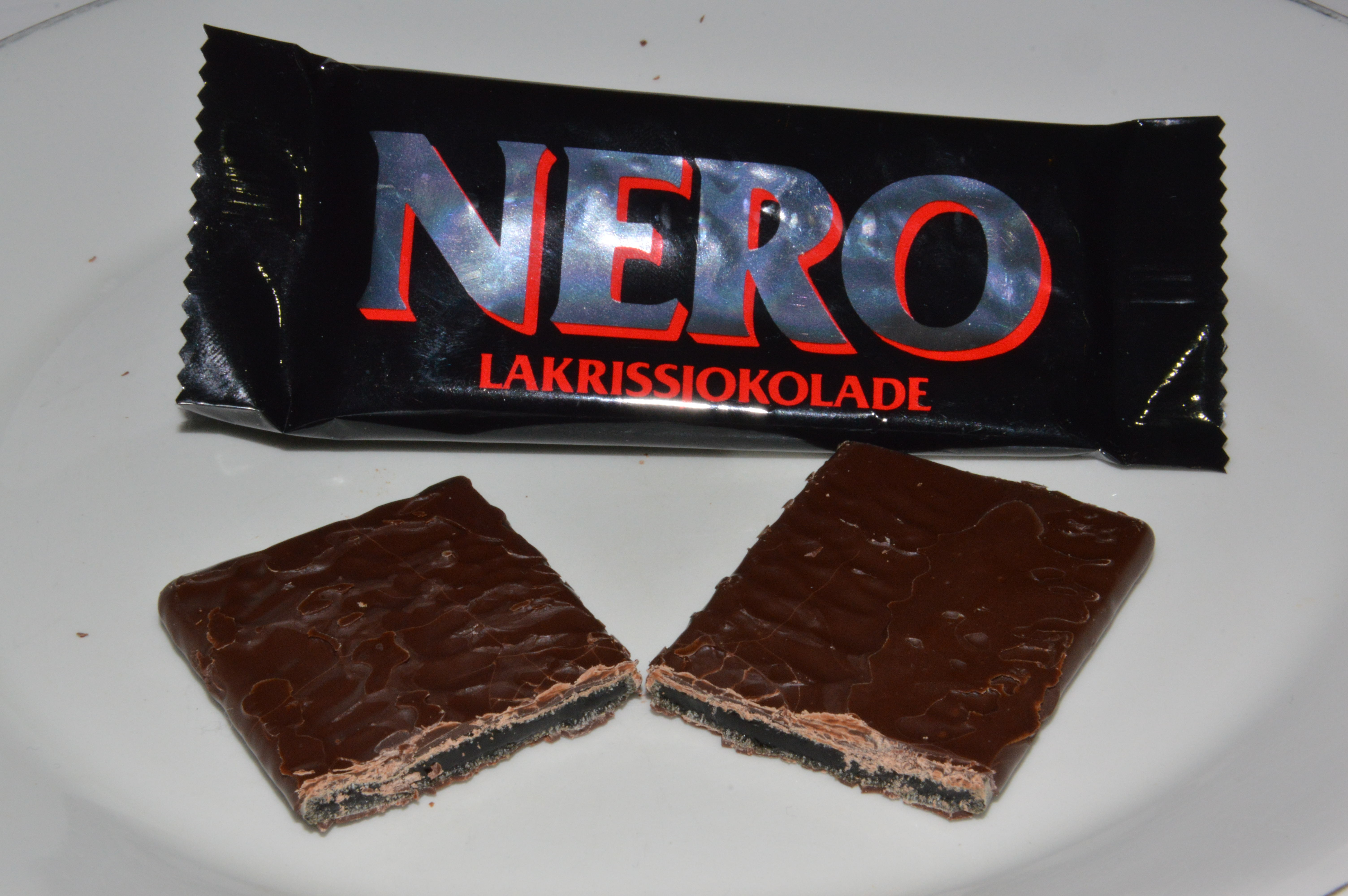 Nero is a chocolate and licorice-based confection made by Nidar AS of Trondheim, Norway. It consists of a licorice based jelly with additional aniseed and fennel oil flavourings. It is covered in a layer of 45% dark chocolate.